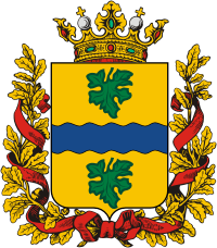 Coat of arms of Syr Darya Province, Russian Empire.